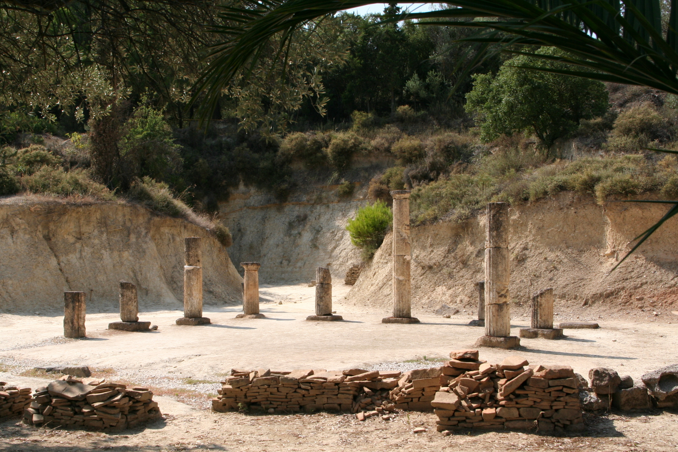 Apodyteria (Changing Room), Nemea circa 300 BC